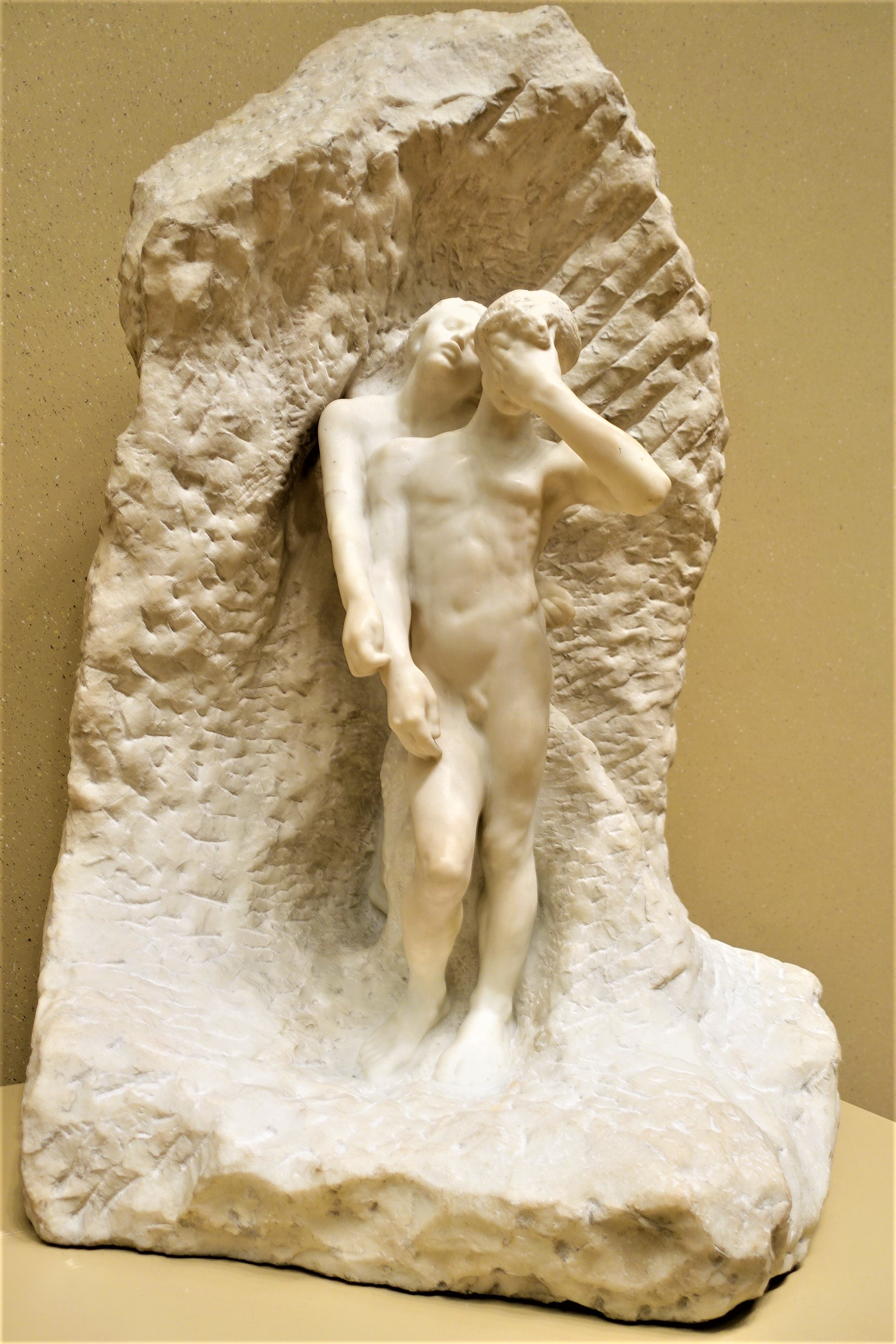 "Orpheus and Eurydice" by Auguste Rodin - MET - Metropolitan Museum of Art - Joy of Museums - for details